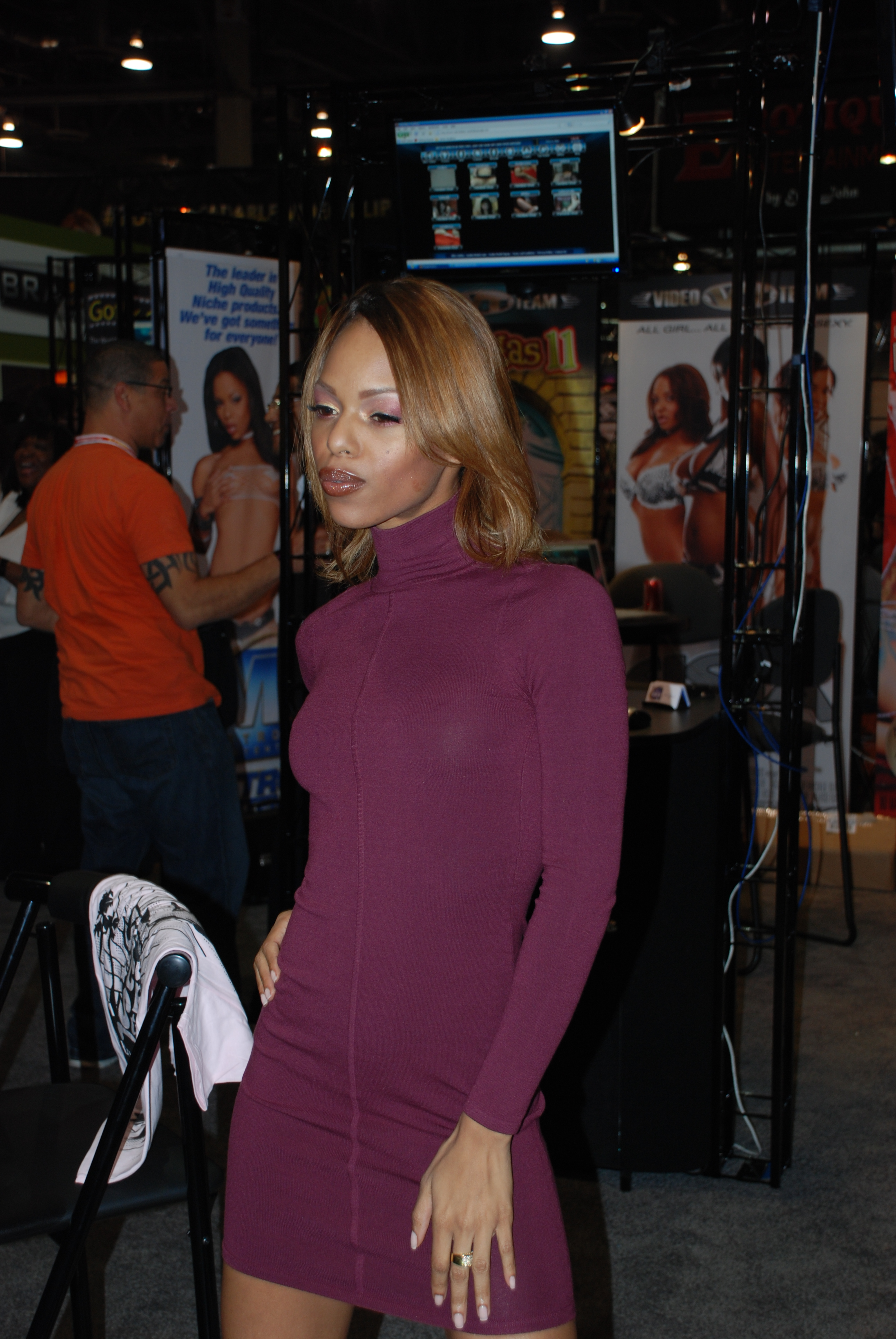 Marie Luv at the 2009 AVN Adult Entertainment Expo